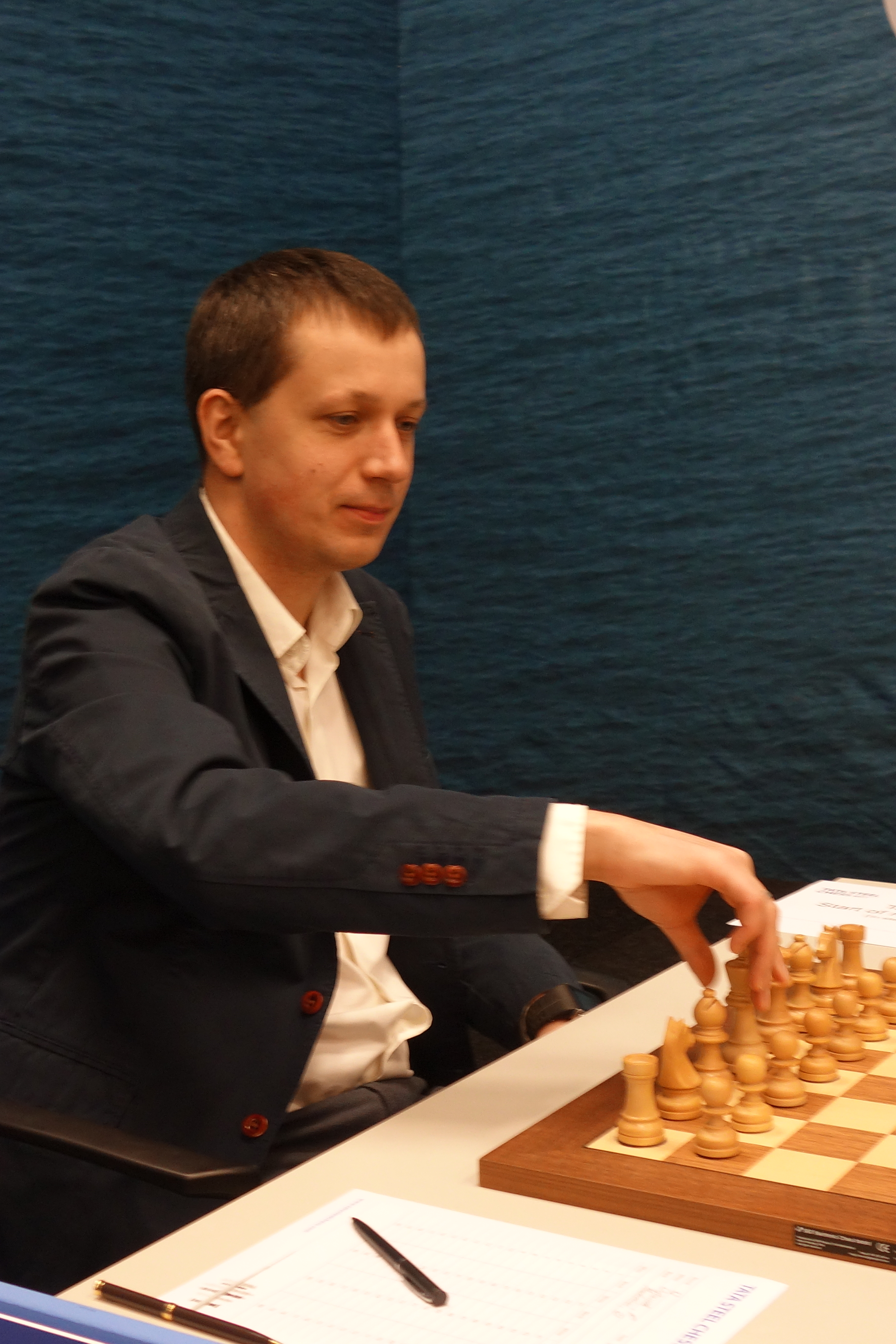 Radosław Wojtaszek - Tata Steel Chess Tournament 2017, Wijk aan Zee (the Netherlands), 28 January 2017